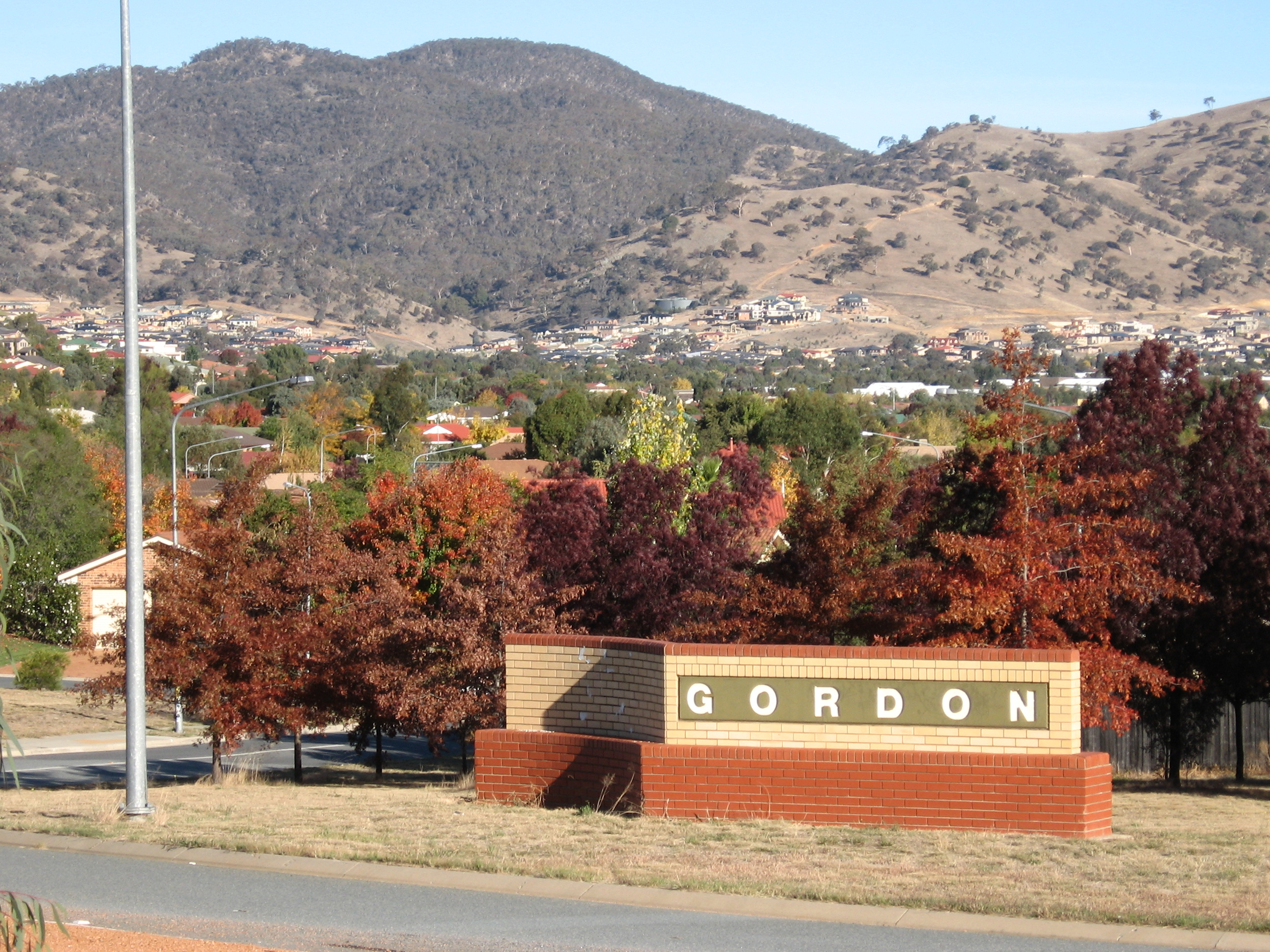 Gordon, Australian Capital Territory. I took this photo myself.